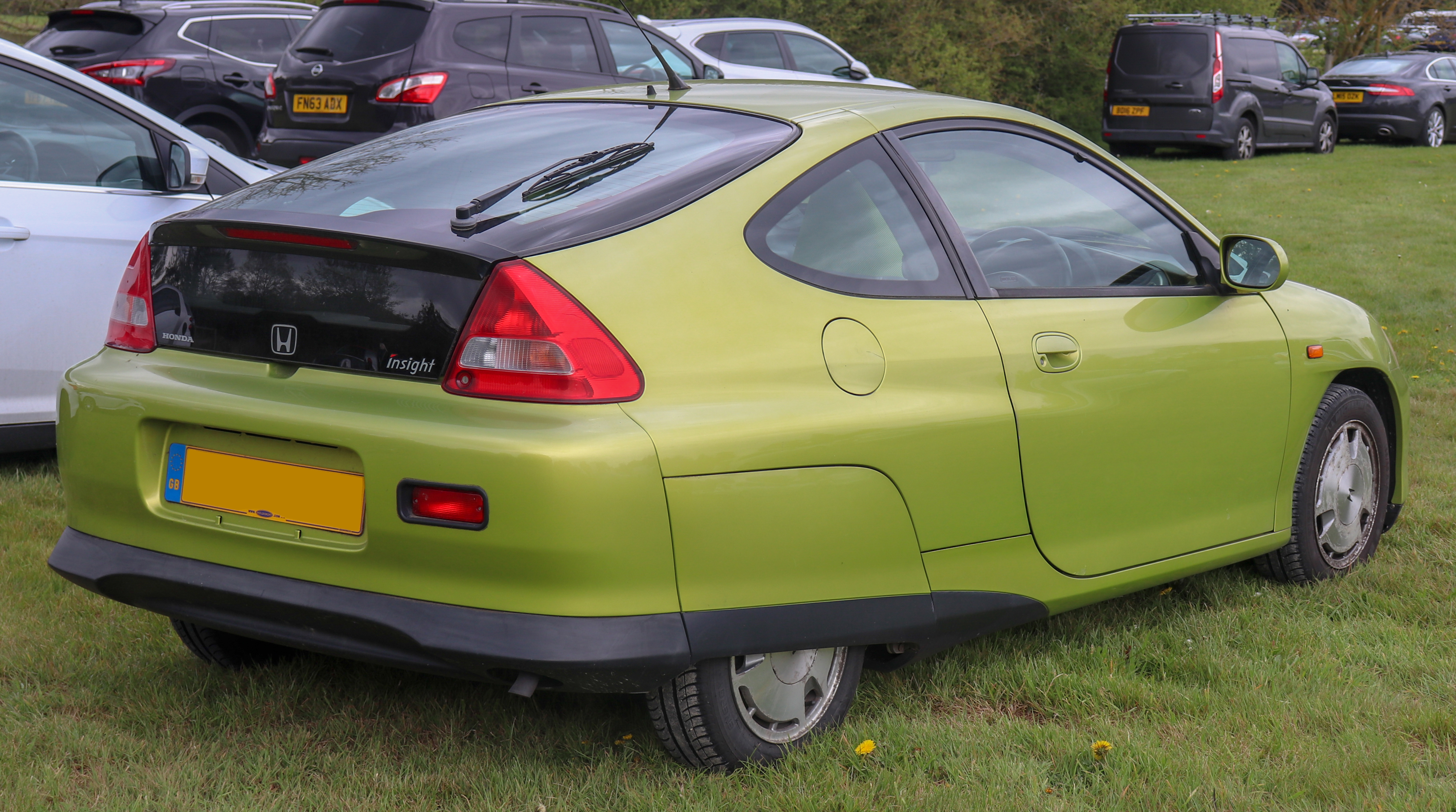 2001 Honda Insight 1.0 Rear Taken in NAEC Stoneleigh, Warwickshire